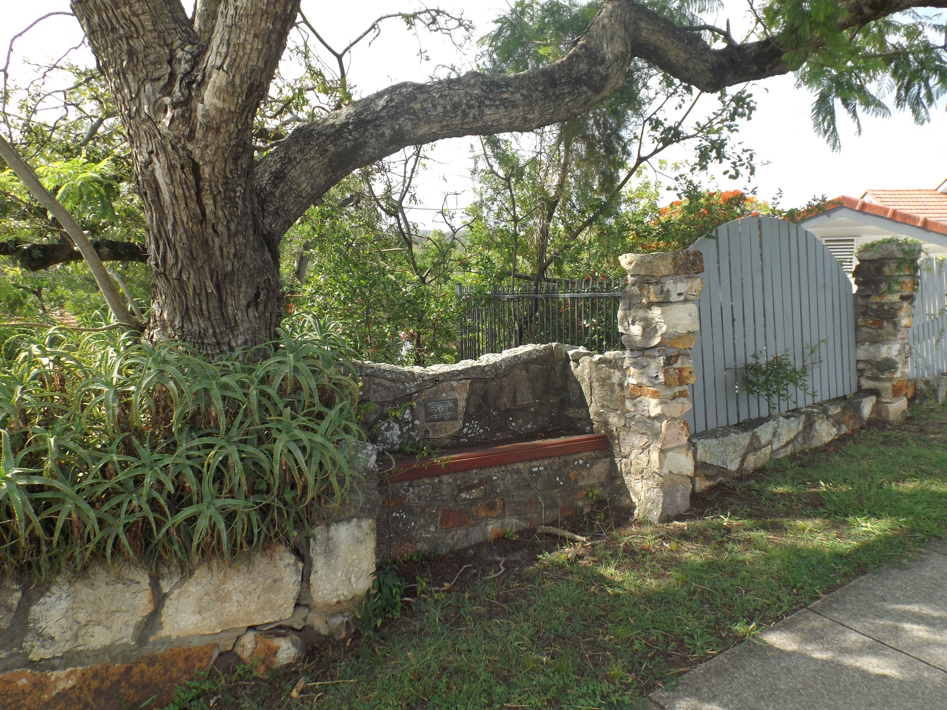 Photo of Pilot Officer Geoffrey Lloyd Wells Memorial Seat and footpath at Taringa, Brisbane, Queensland, Australia.